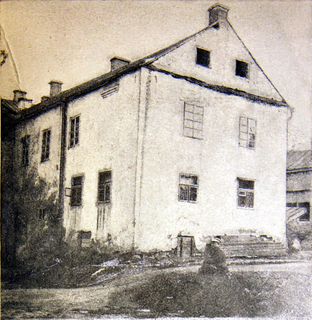 Sapieha Manor in Miensk